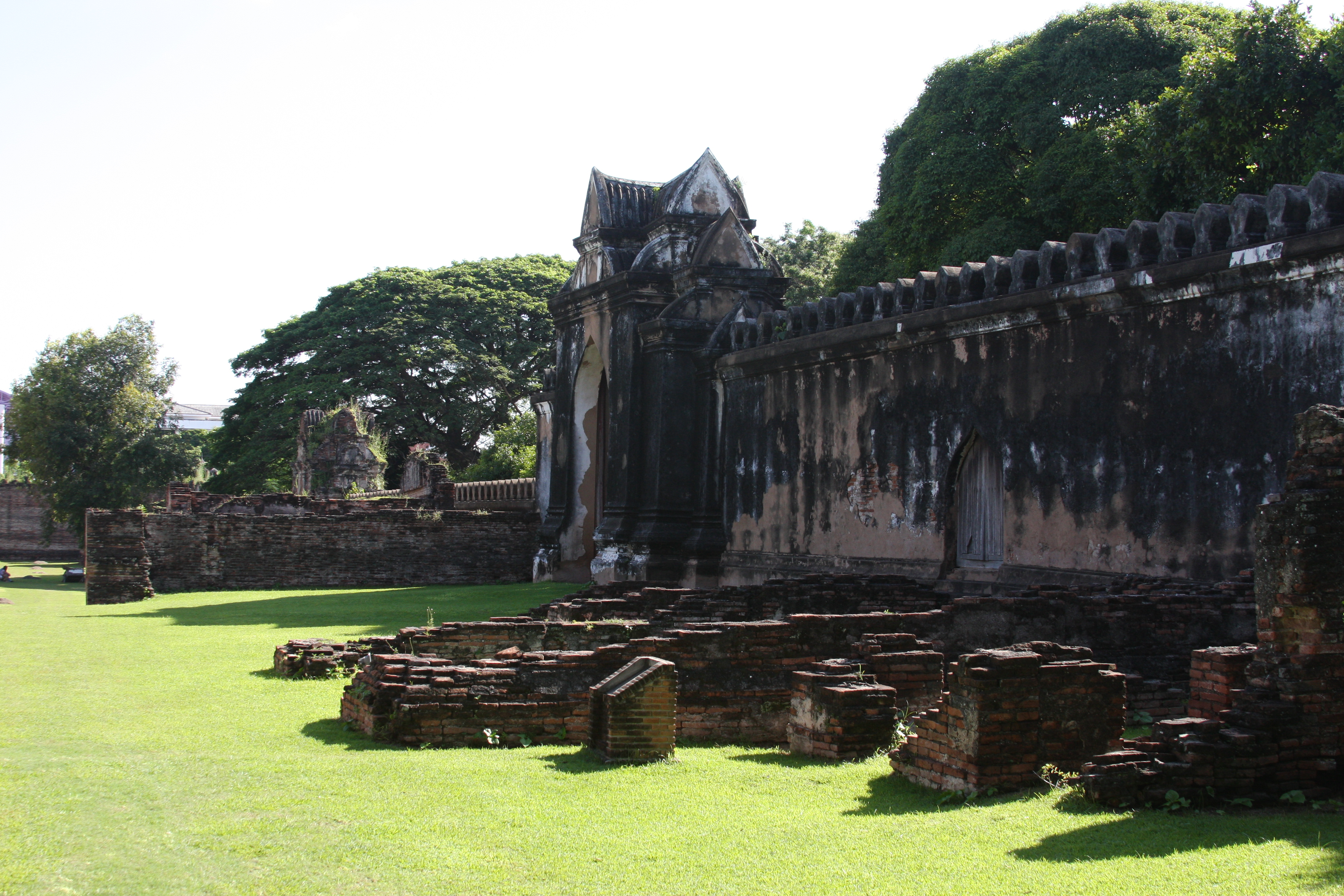 Phra Narai Ratchanawet, the old castle of king Narai in old town, Lopburi